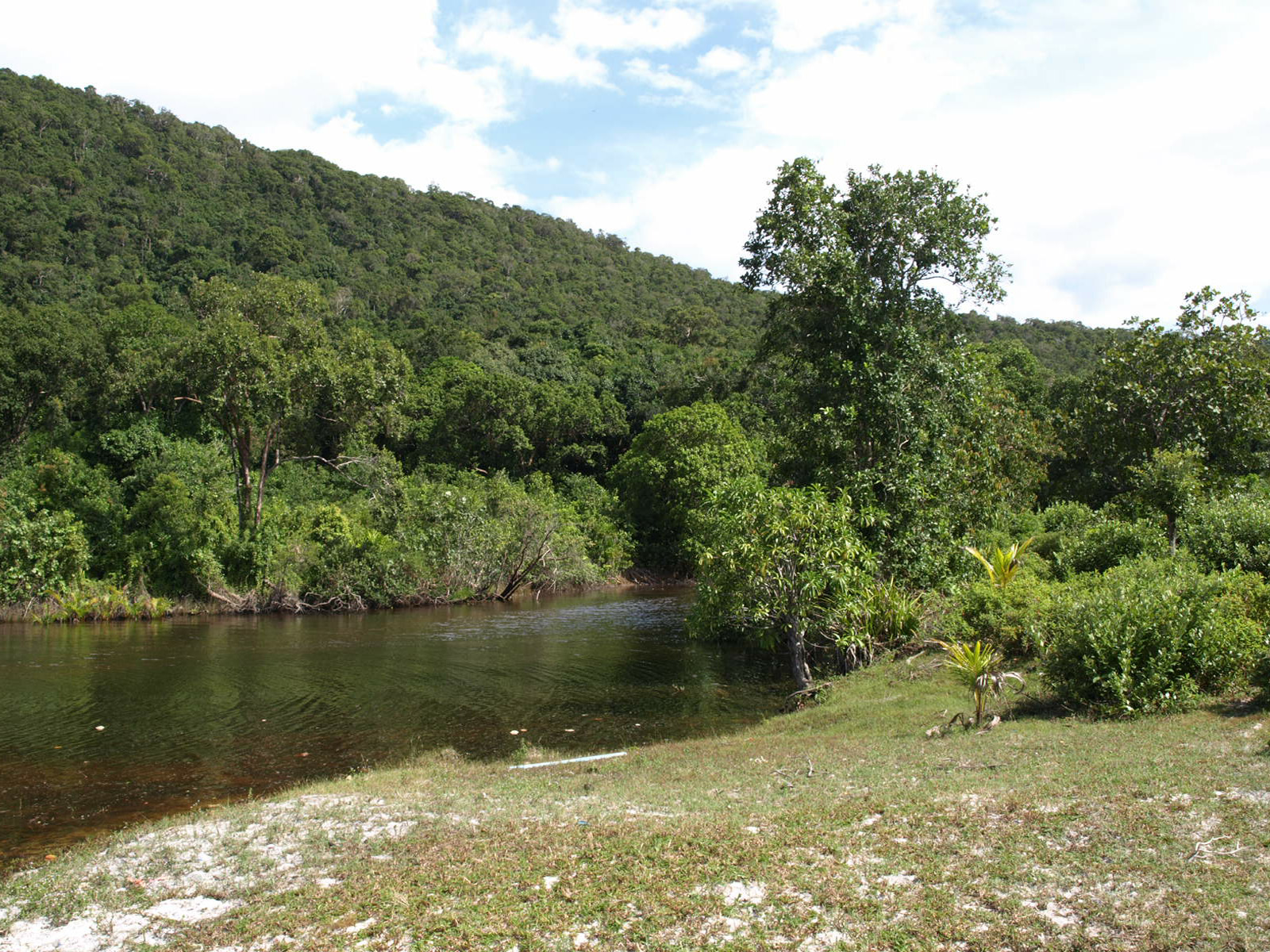 water's edge scenery on Rong Sanloem Island Cambodia